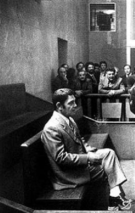 Gerlando Alberti at a trial in the 1970s Member of Cosa Nostra